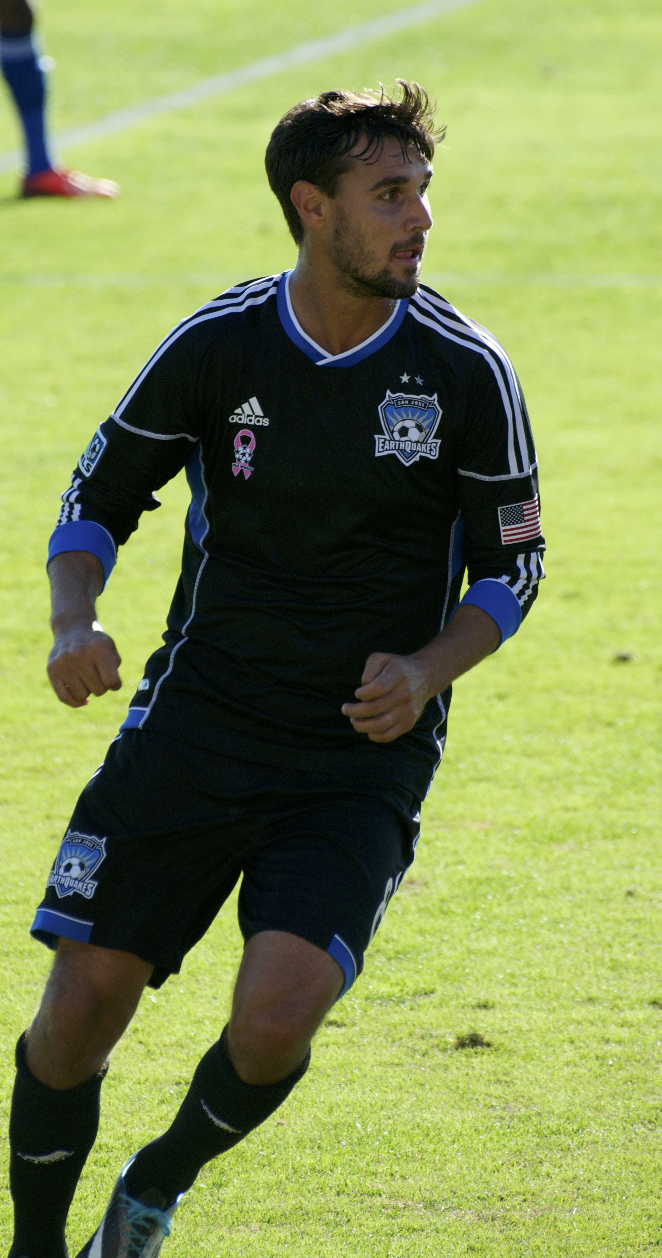 Chris Wondolowski, San Jose Earthquakes, Buck Shaw Stadium, 26 October 2013